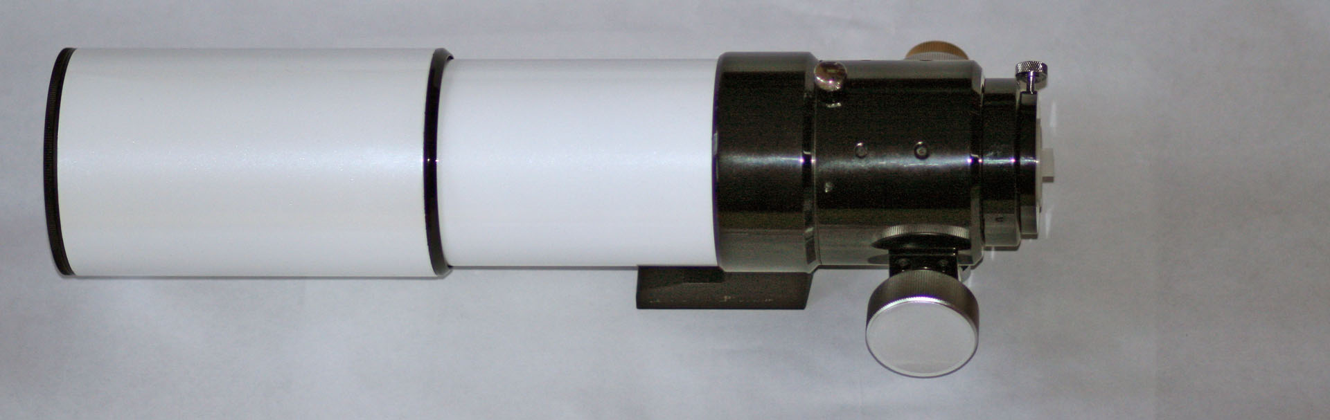 A small refractor telescope with the fokusser drawn in